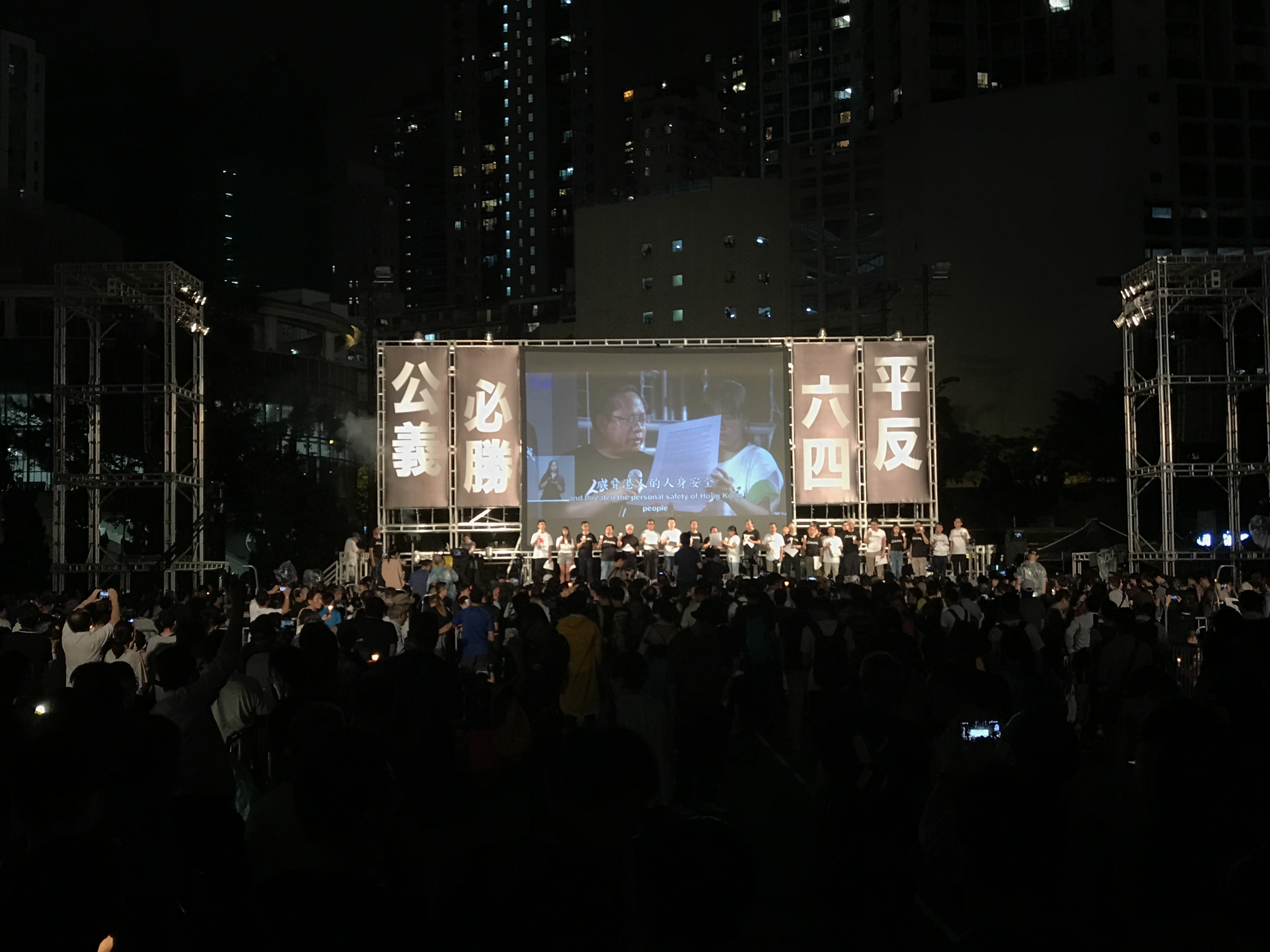 The main stage used in 30th Anniversary Memorial of Tinanmen Square Protests. Photographed in Victoria Park, Hong Kong.